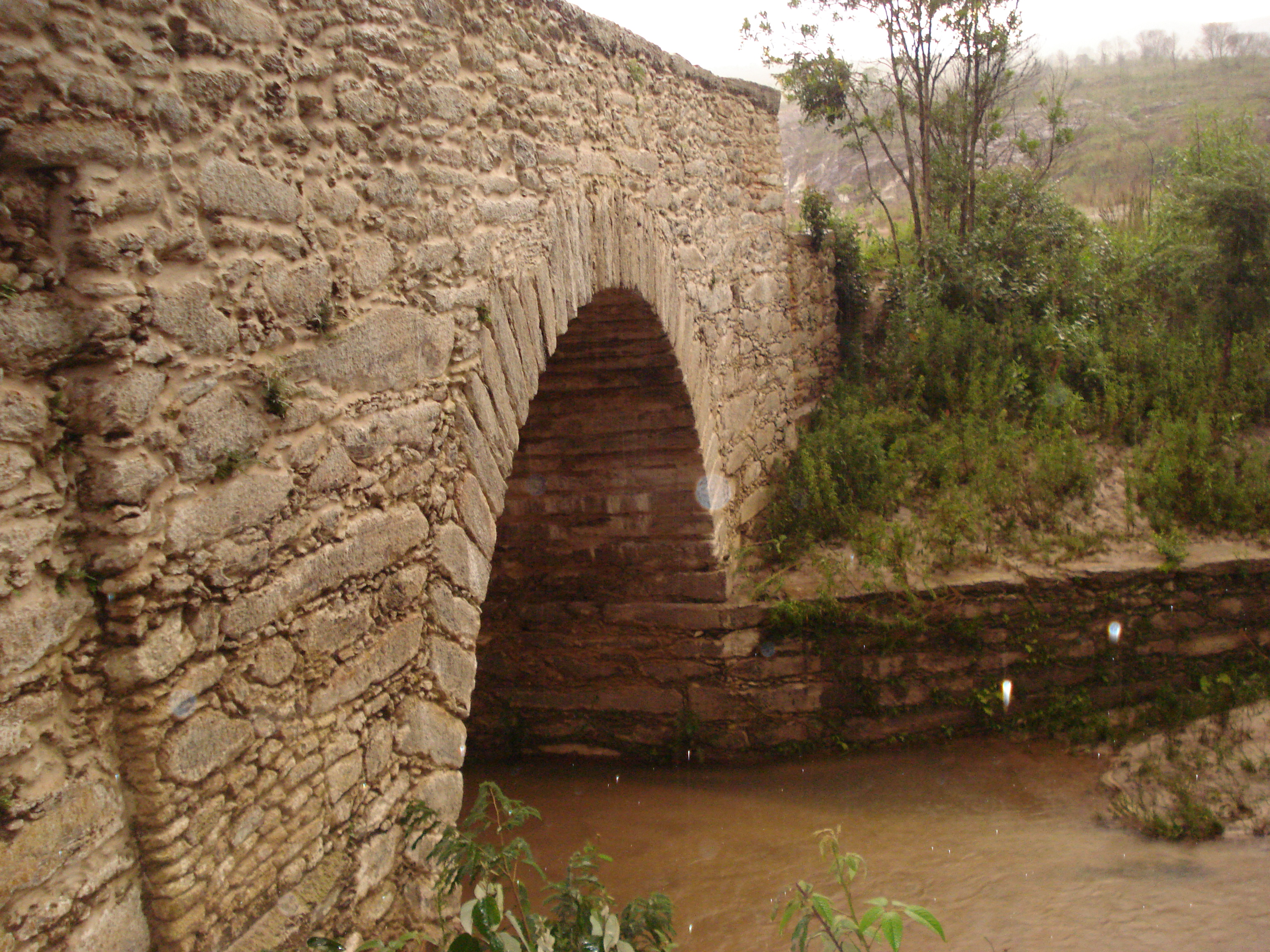 Skeleton's Bridge